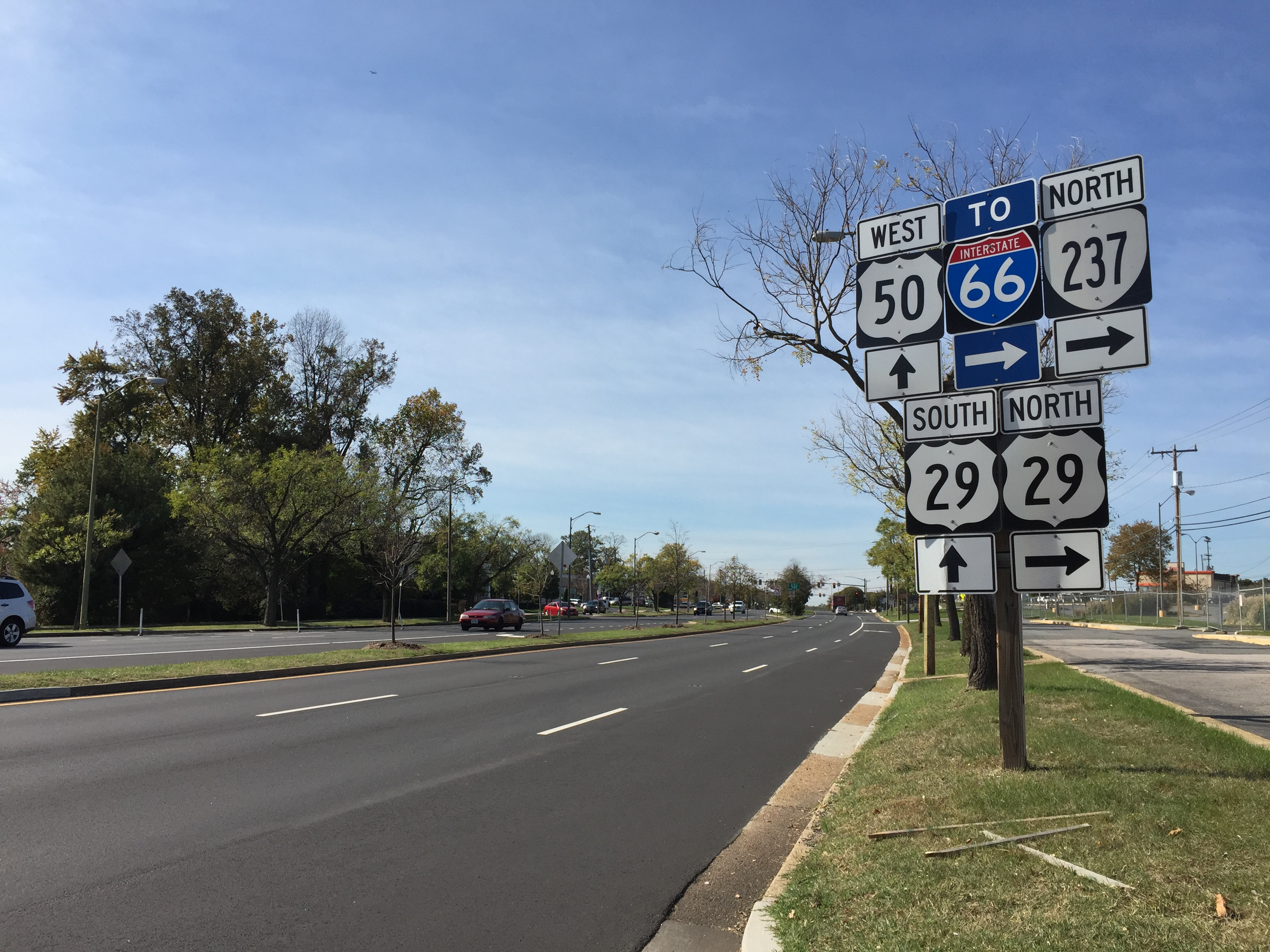 View west along U.S. Route 50 and north along Virginia State Route 237 (Fairfax Boulevard) between Pickett Road and U.S. Route 29 (Lee Highway) in Fairfax, Virginia